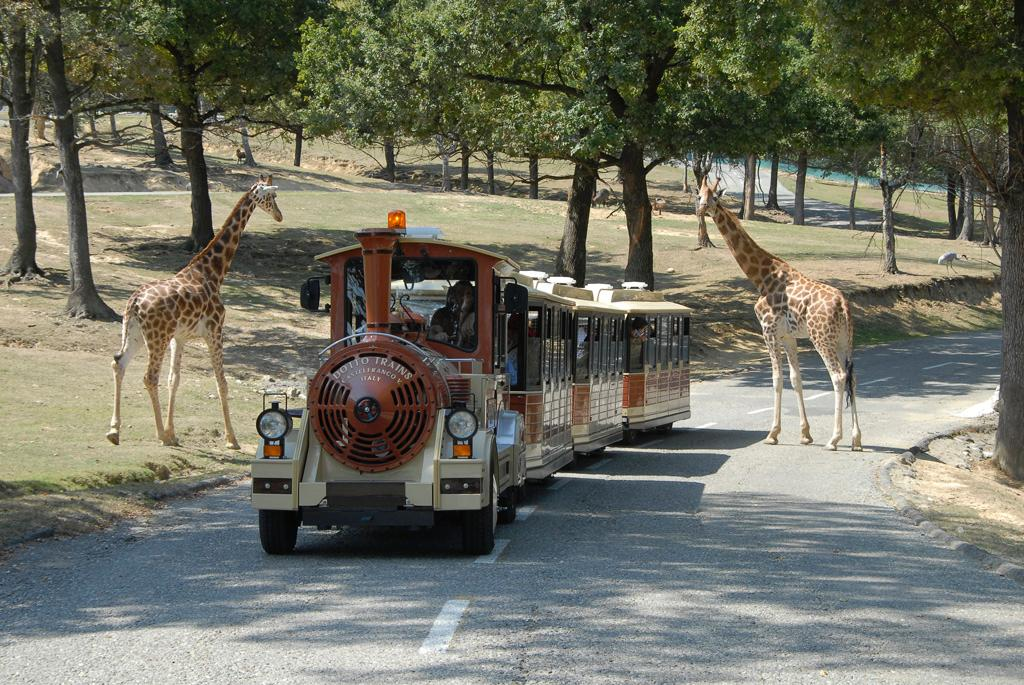 Giraffes and the Electirc train in Pombia Safari Park ITALY